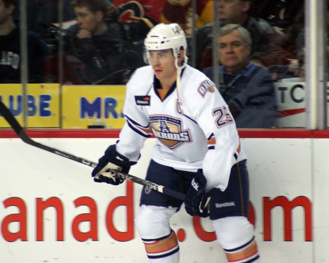 Ben Ondrus, born June 25, 1982 in Sherwood Park, Alberta is a Canadian professional ice hockey forward. He has played in the National Hockey League (NHL) with the Toronto Maple Leafs. Photo was taken on February 18, 2011 during an American Hockey League (AHL) regular season game.